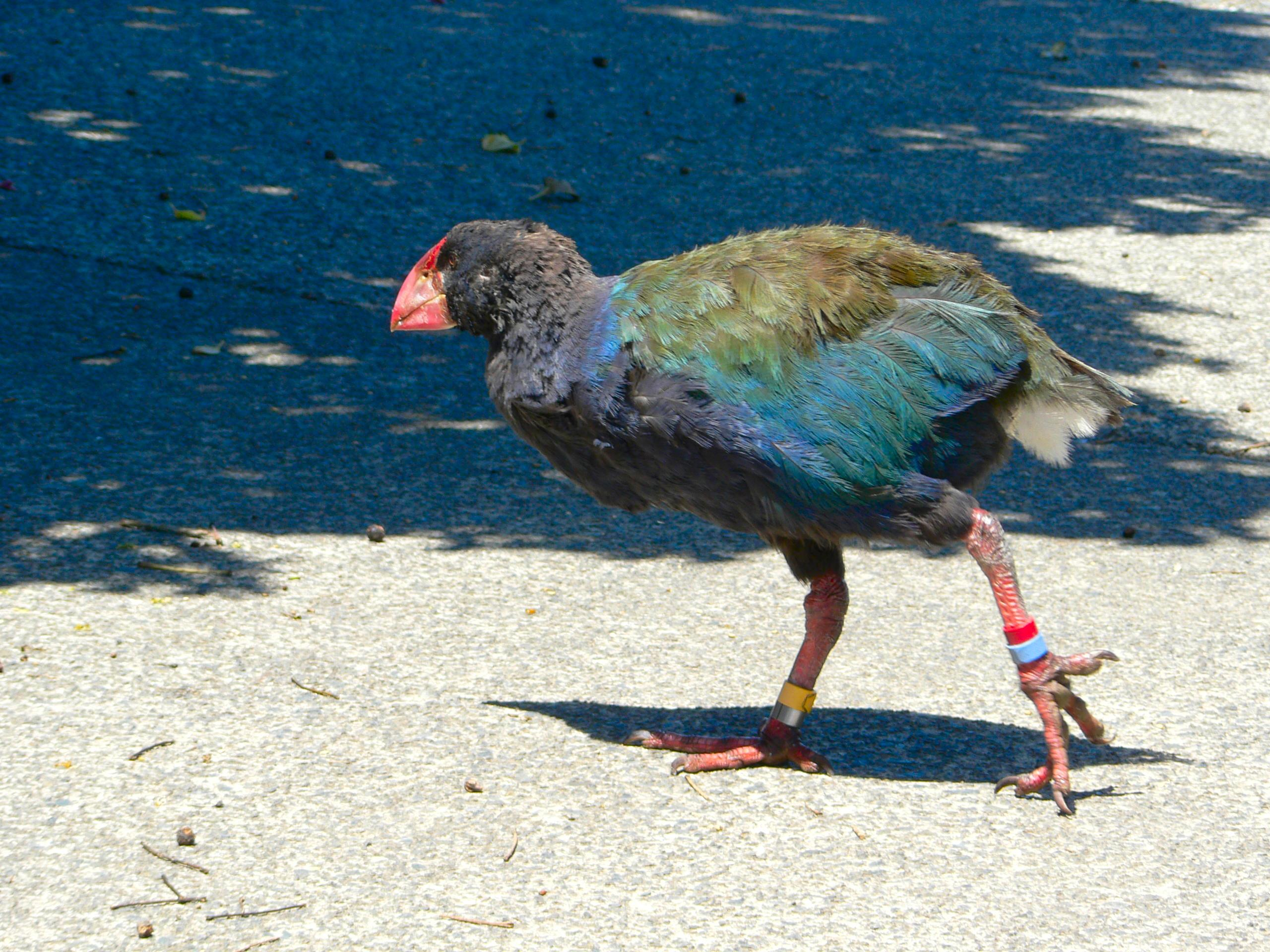 Takahē (also called the South Island Takahē) on Tiritiri Matangi Island, New Zealand.